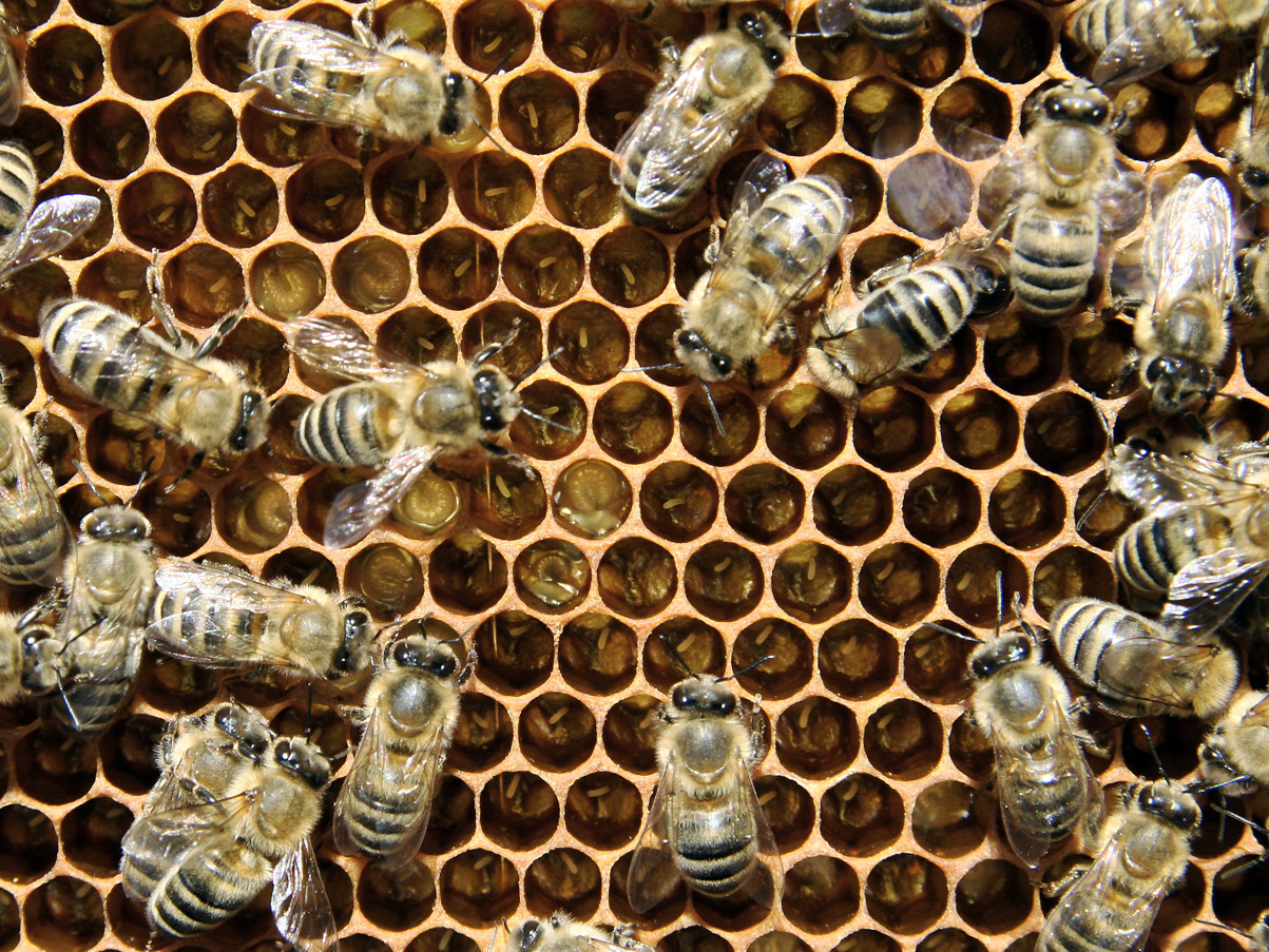 Bees with brood (eggs and larvae)